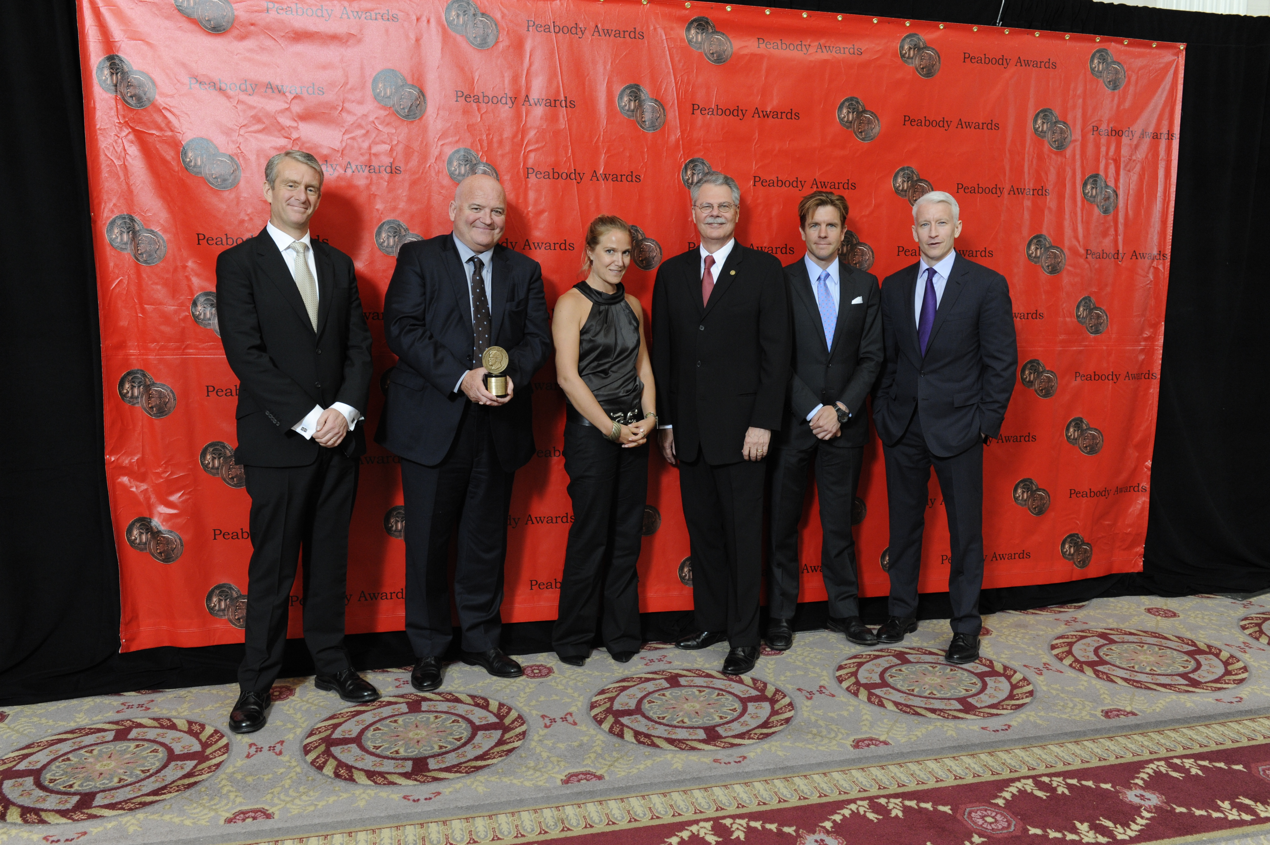 PHOTO CREDIT: ANDERS KRUSBERG / PEABODY AWARDS A Peabody Award for CNN’s Reporting on the Arab Spring. L to R: Nic Robertson, Tony Maddox, Arwa Damon, Horace Newcomb, Ivan Watson, and Anderson Cooper. 71st Annual Peabody Awards Luncheon Waldorf=Astoria Hotel, May 21, 2012